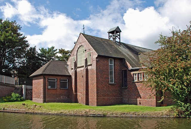 St Peters, Darby End View from the Dudley No 2 Canal.